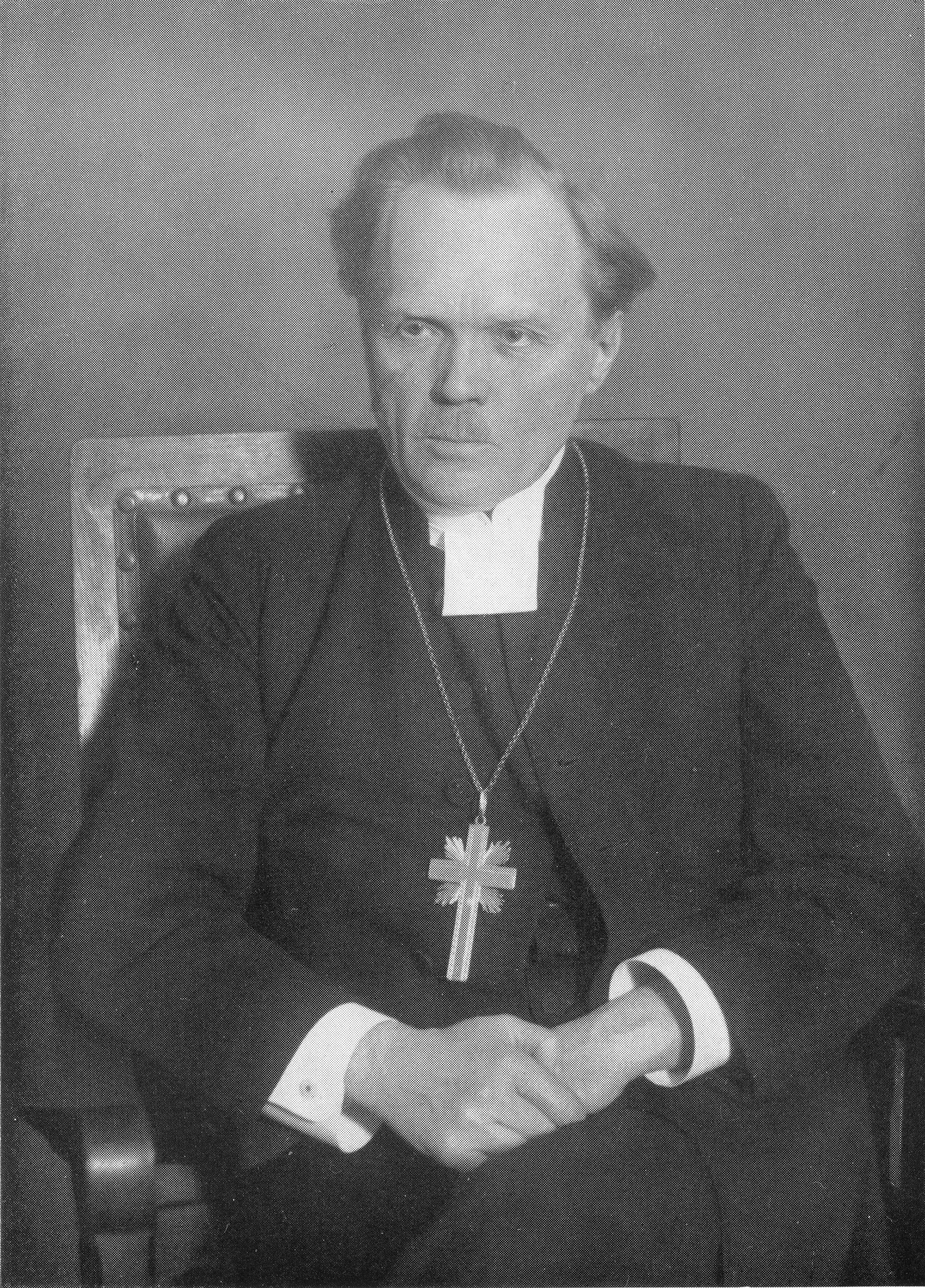 Nathan Söderblom, in the early years as archbishop.